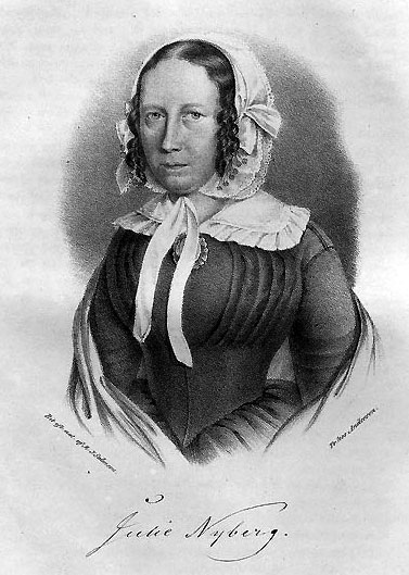 Julia Christina Nyberg